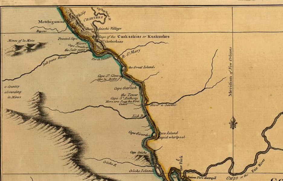 Map was commissioned by US Lieut. Ross in 1772 to survey lands along the Mississippi River